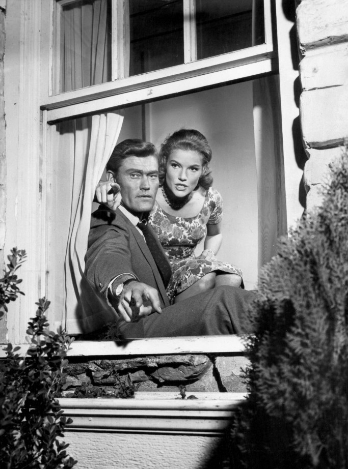 Publicity photo from the television show The DuPont Show With June Allyson. Pictured in one of the presentations are Chuck Connors and Pippa Scott.